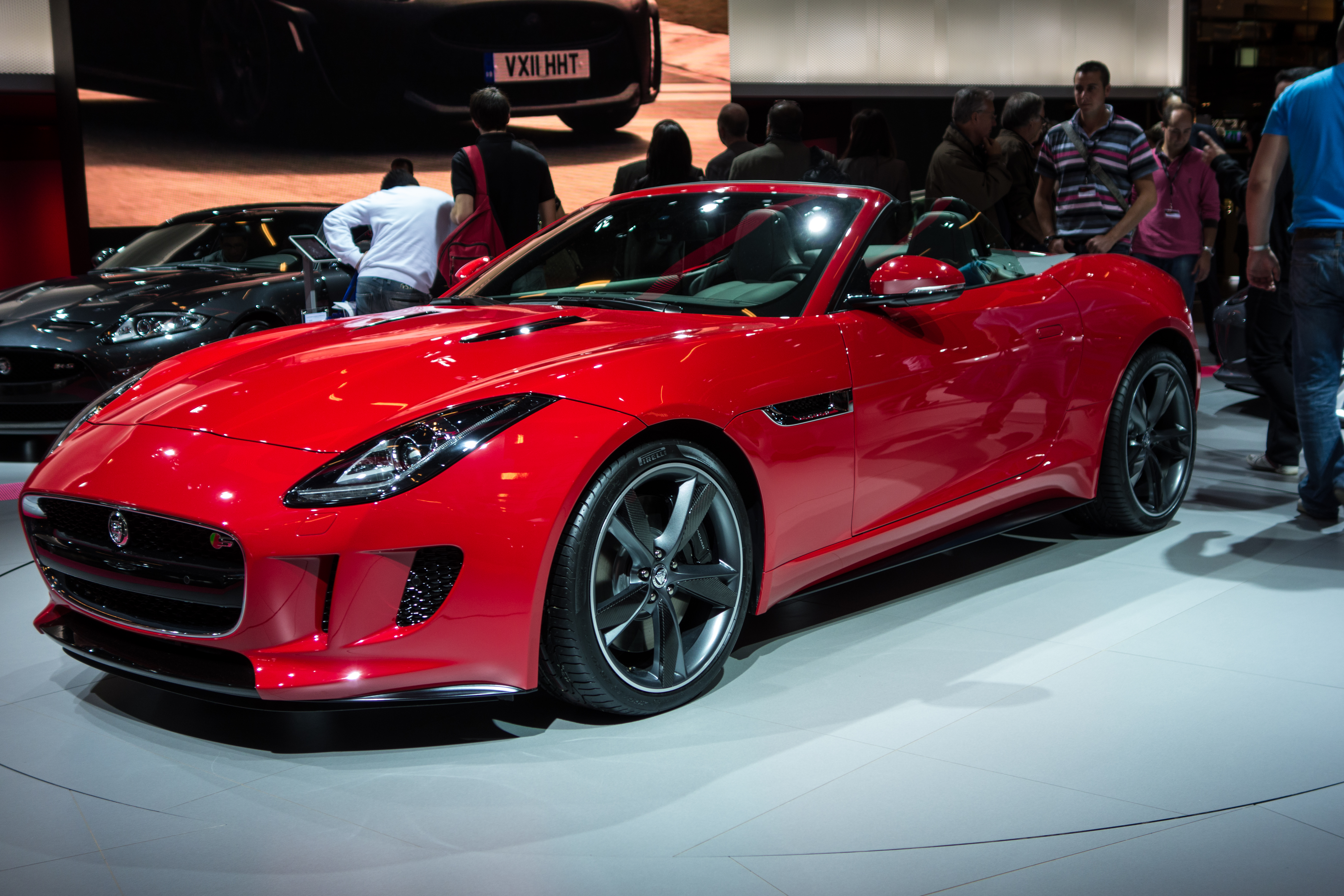 Jaguar F-Type at Mondial De L'automobile Paris 2012 | Paris Motor Show 2012